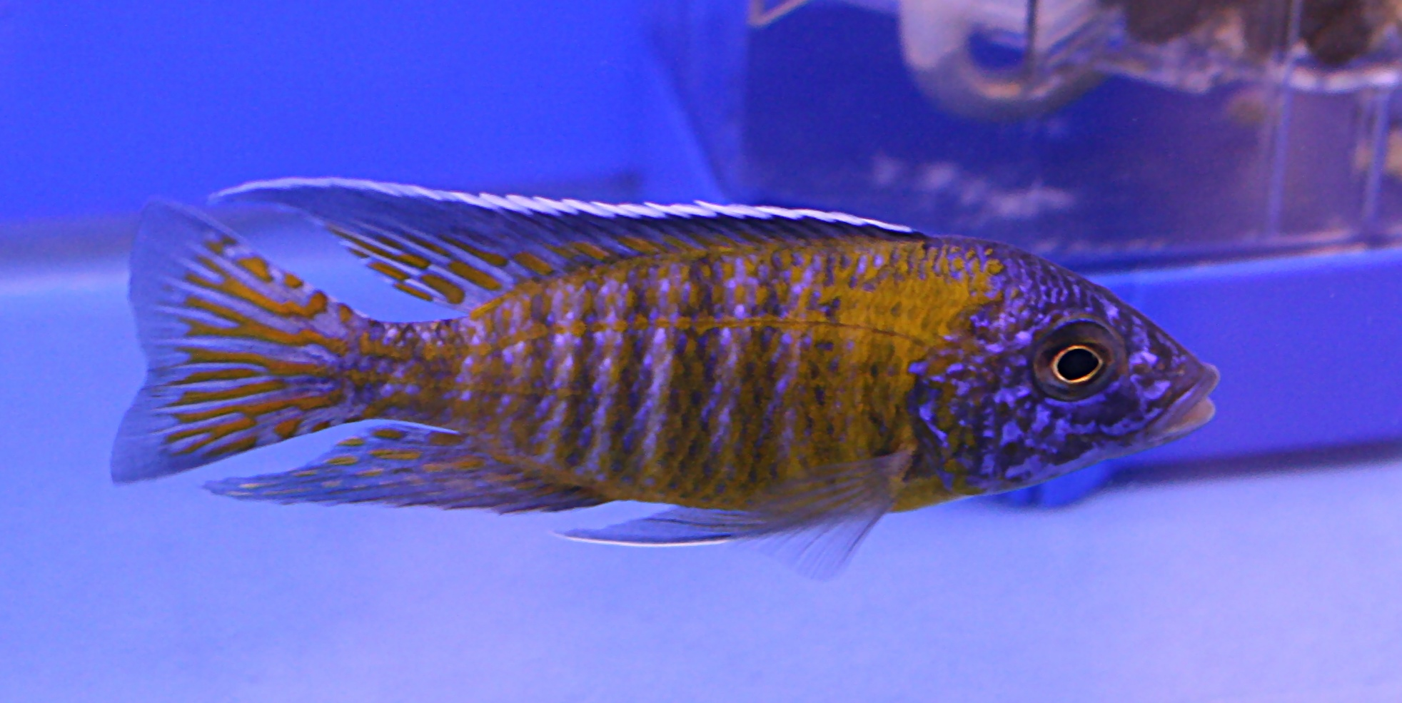 or Aulonocara steveni "Usisya-Flavescent" from The 6th "Pramong Nomjai Thaituala" Thailand Tropical Fish Competition 2007. (Won 1st prize under Usisya category)